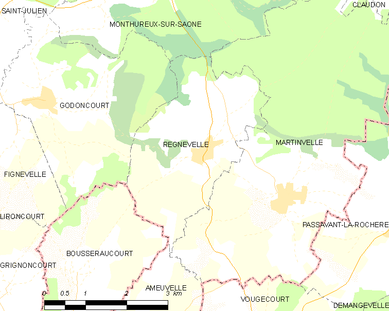 Map of French municipality Regnévelle